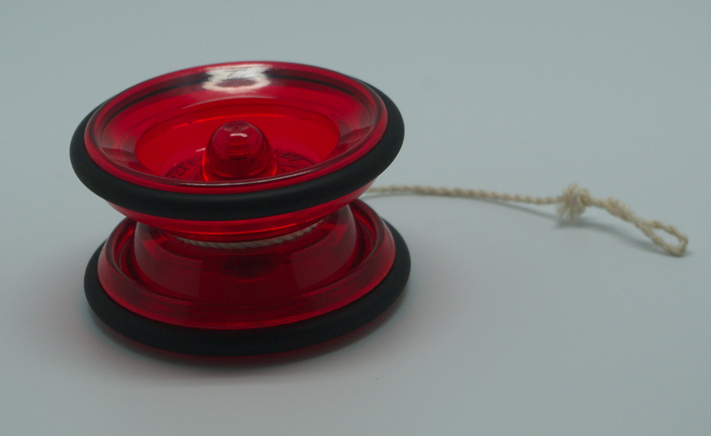 Yoyo rouge